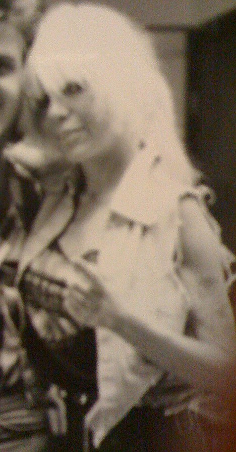 Female rocker Wendy O. Williams (right)